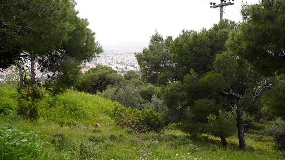 The picture depicts the Vrilissia suburban forest.